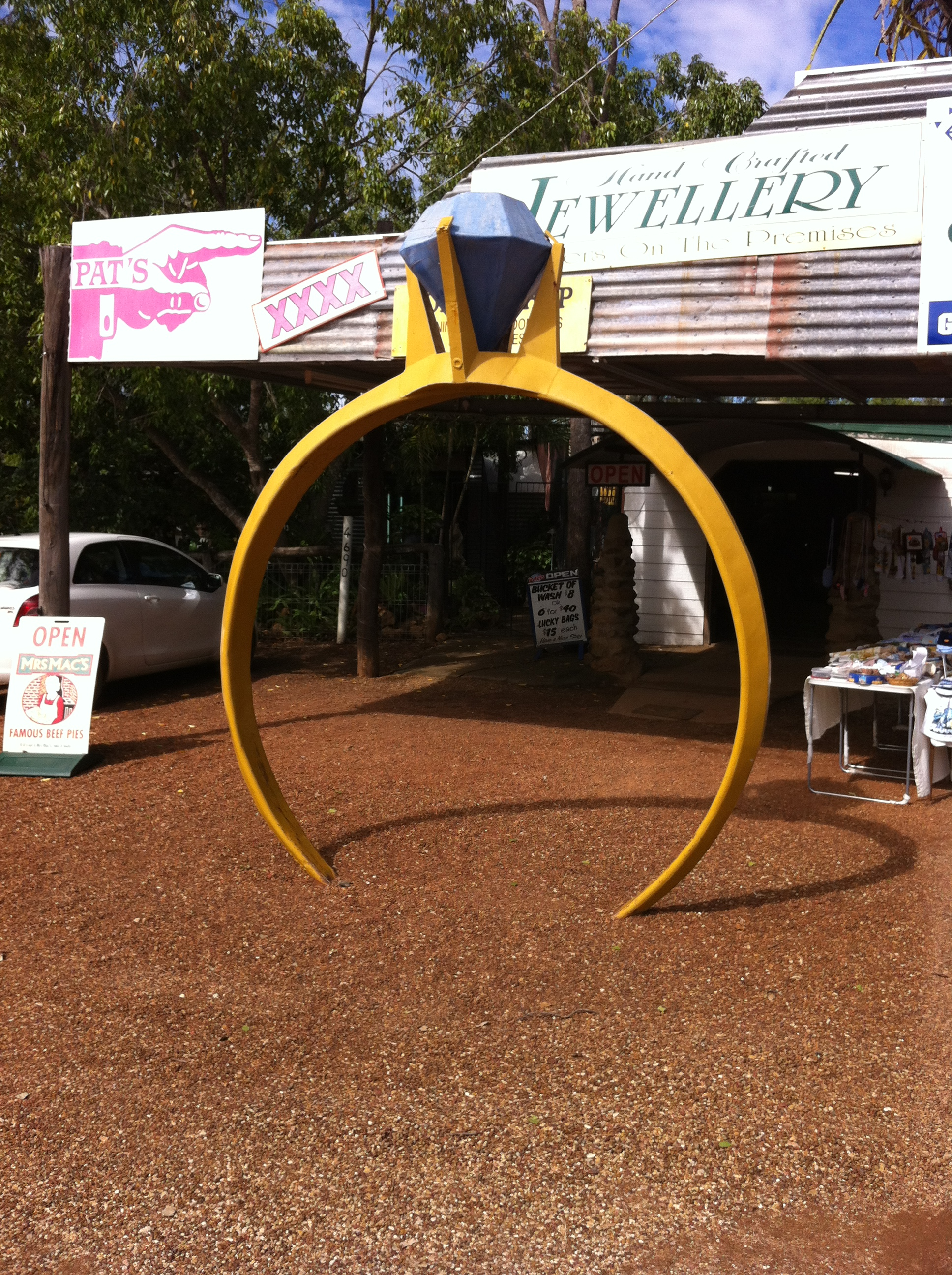 Photo of the Big Sapphire Ring in Sapphire, Queensland